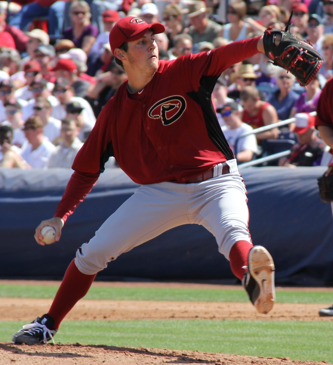 Trevor Bauer in 2012 Arizona Diamondbacks spring training.